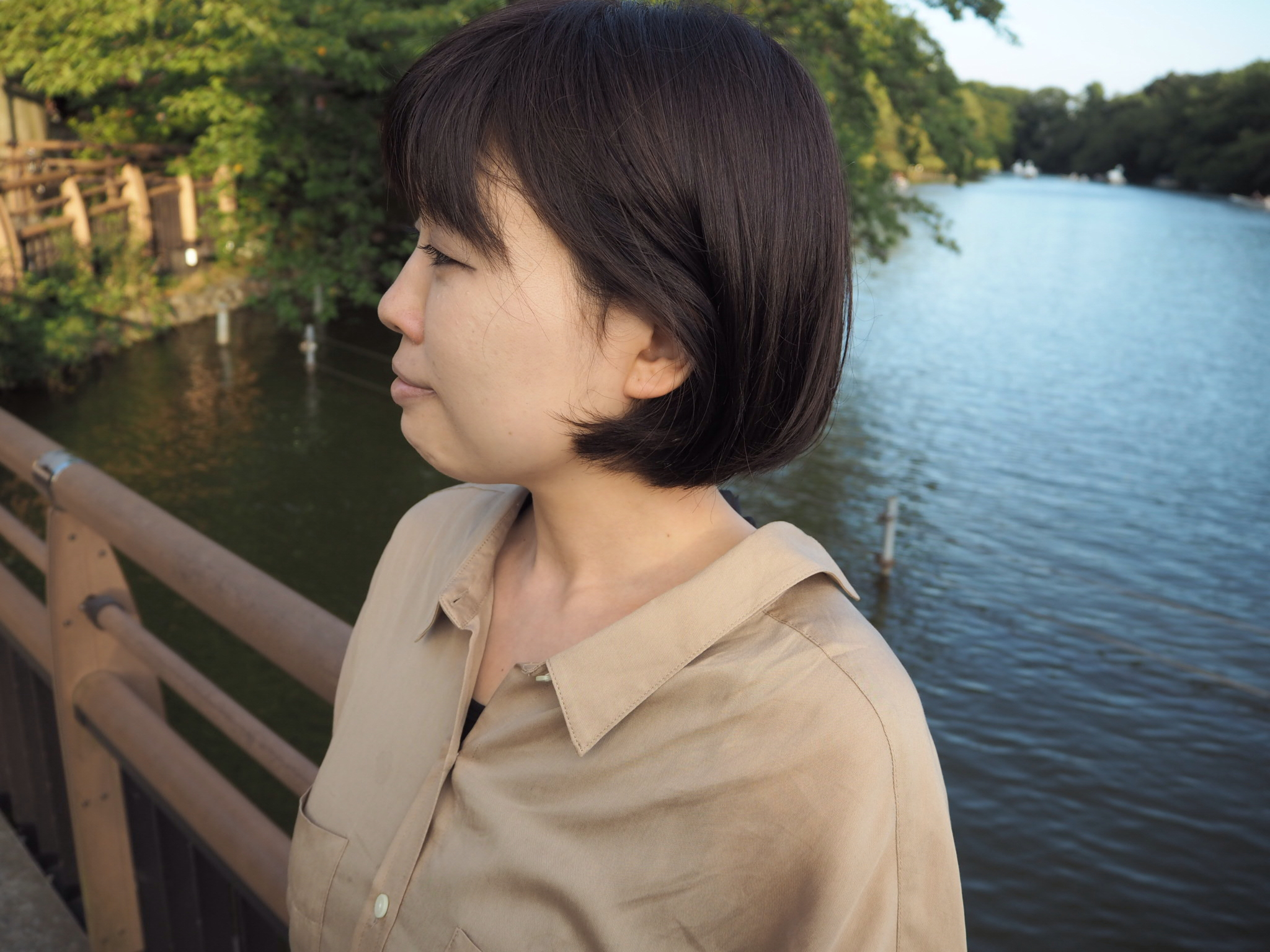 the author's recent [latest] photograph.